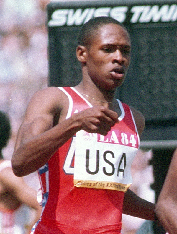 Second Lieutenant Alonzo Babers (with baton), US Air Force, competes in a leg of the 4x400 meter relay at the 1984 Summer Olympics. Barbers won a gold medal in the event. Source description and credit info from the Department of Defense: Suggested credit: DOD. DoD photo by: KEN HACKMAN Date Shot: 14 Aug 1984 Public Domain. Source: DOD. All images on this site from the Department of Defense are believed to be in the public domain. DOD specifically states: "All of these files are in the public domain unless otherwise indicated. However, we request you credit the photographer/videographer as indicated or simply "Department of Defense." See image use policy. For more information or to search DOD click here. Available information on this specific image appears below.